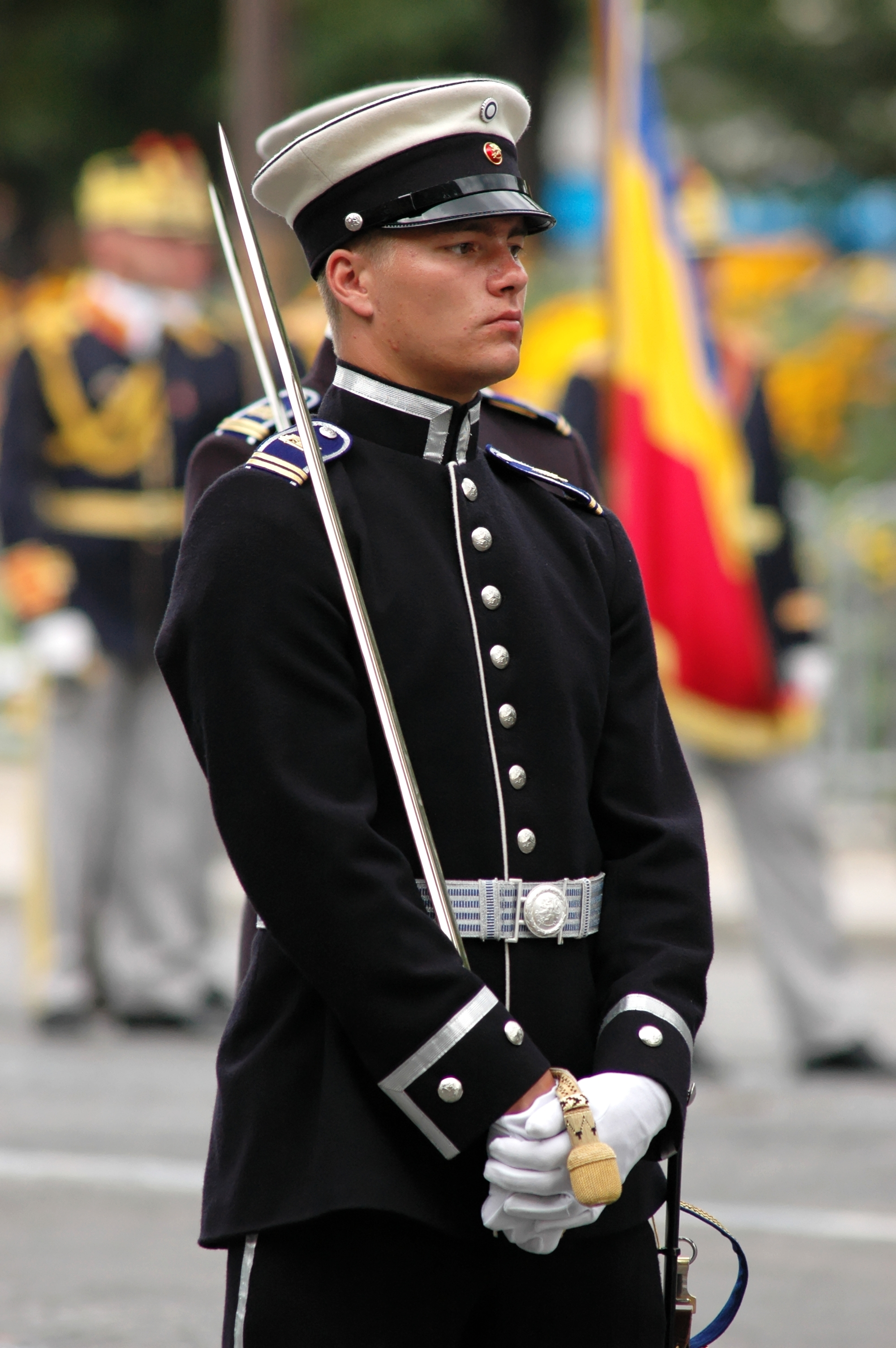 Cadet of the National Defence Advanced College of Finland during the Bastille Day 2007 military parade on the Champs-Élysées.